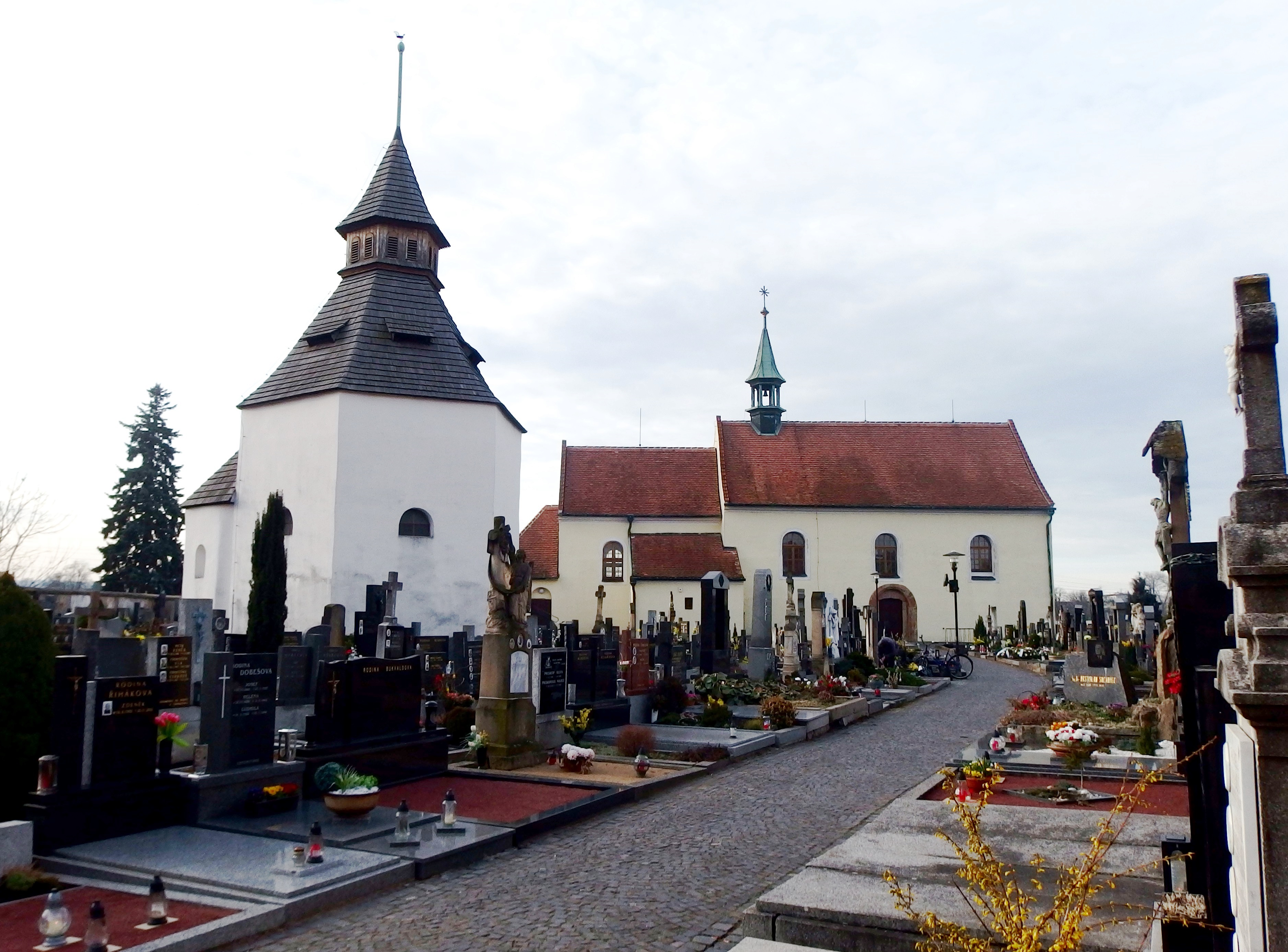 Staré Město in Uherské Hradiště District, Czech Republic.Cemetery with the st.-Michael-church and chapel(former ossuary).